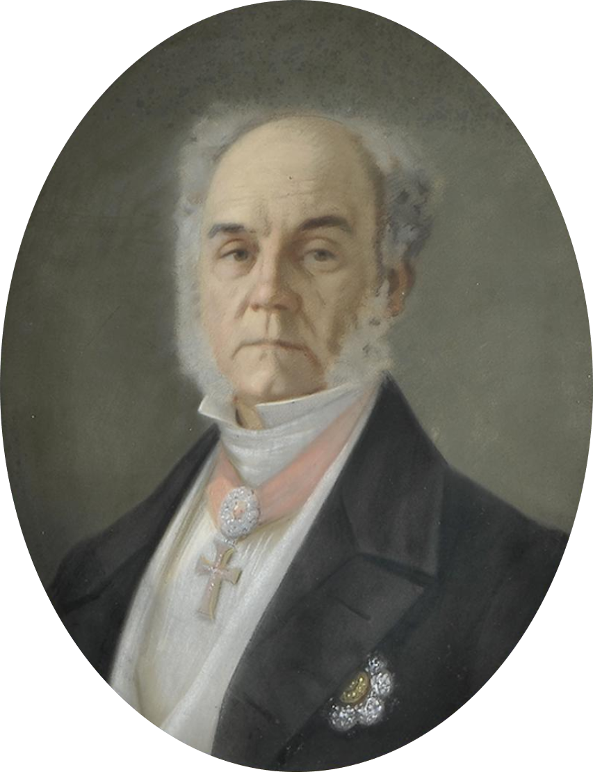 João de Castro do Canto e Melo (1740-1826), 1st Viscount of Castro, in Brazil.